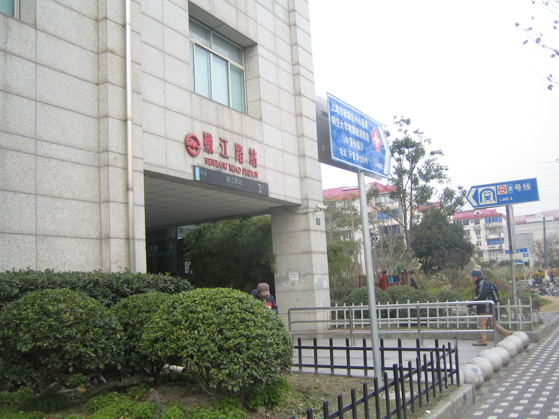 The entrance of Nenjiang Road Station.